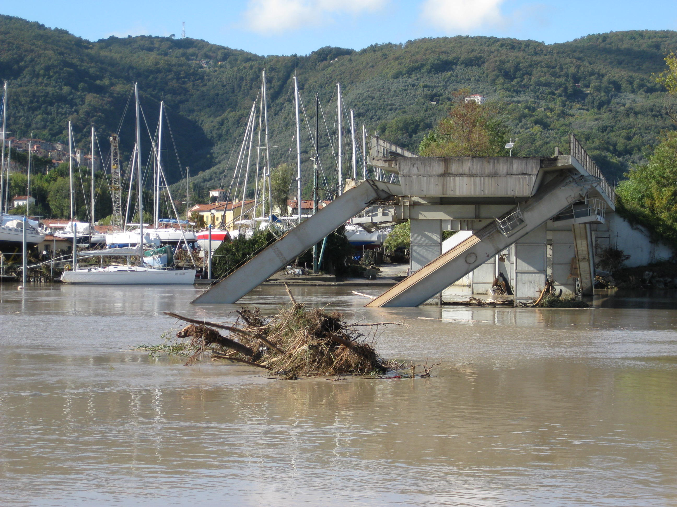 The Colombiera bridge over the Magra River at Ameglia, Italy, destroyed in the flood of October 25, 2011.